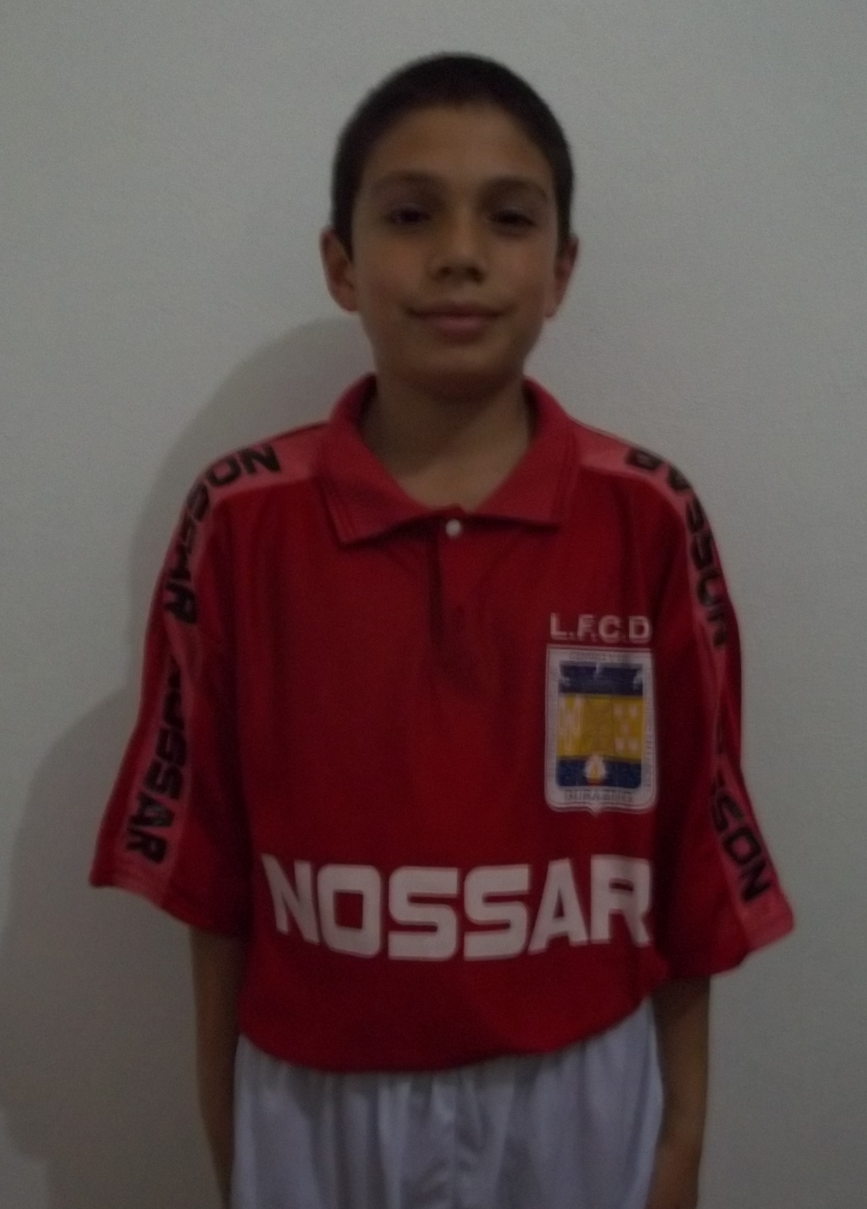 CAMISETA CON ESCUDO INICIAL DE LA LIGA DE FÚTBOL CIUDAD DE DURAZNO